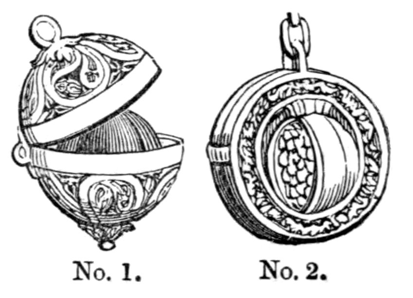 Global and box pomander drawings